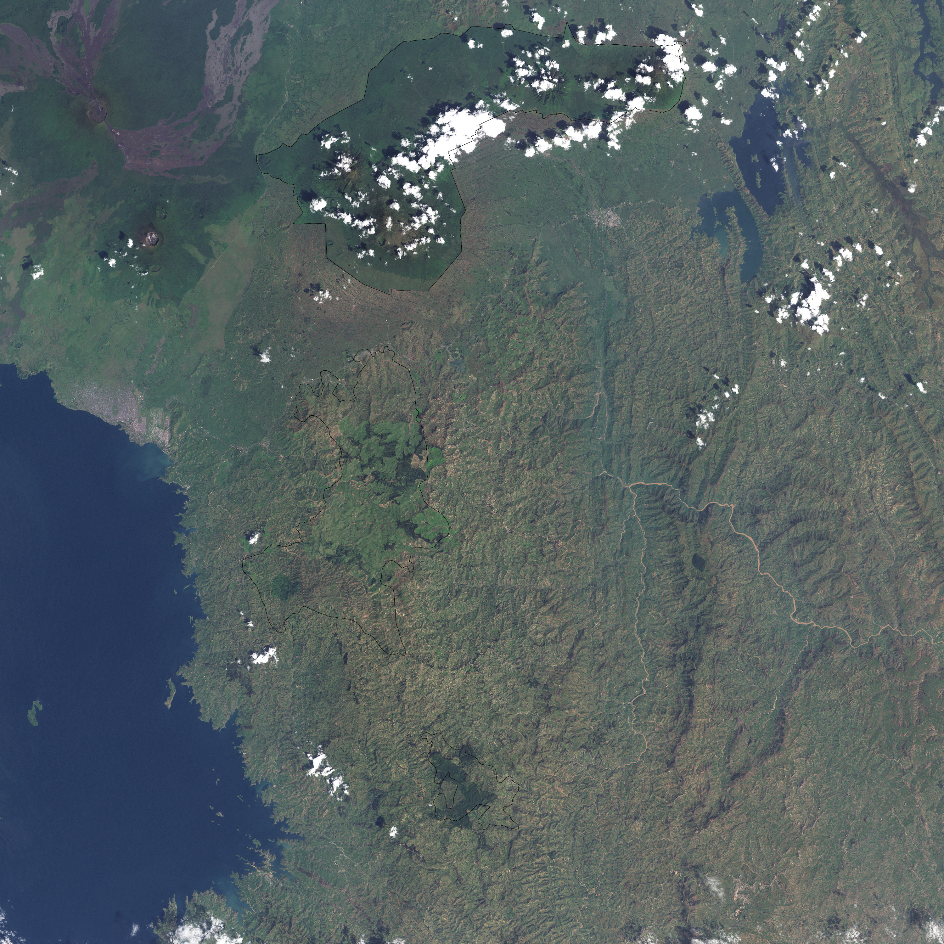 The forest after major deforestation. Large tea estates occupy the central and northern parts of the reserve. The tea-growing areas are lighter green, and the dark green patches are probably plantations of eucalyptus or pine trees.